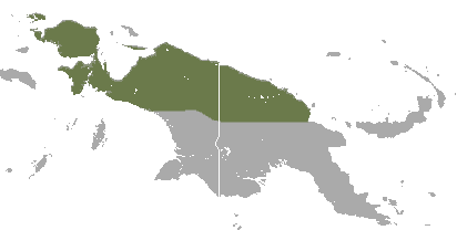 Three-striped Dasyure (Myoictis melas) range